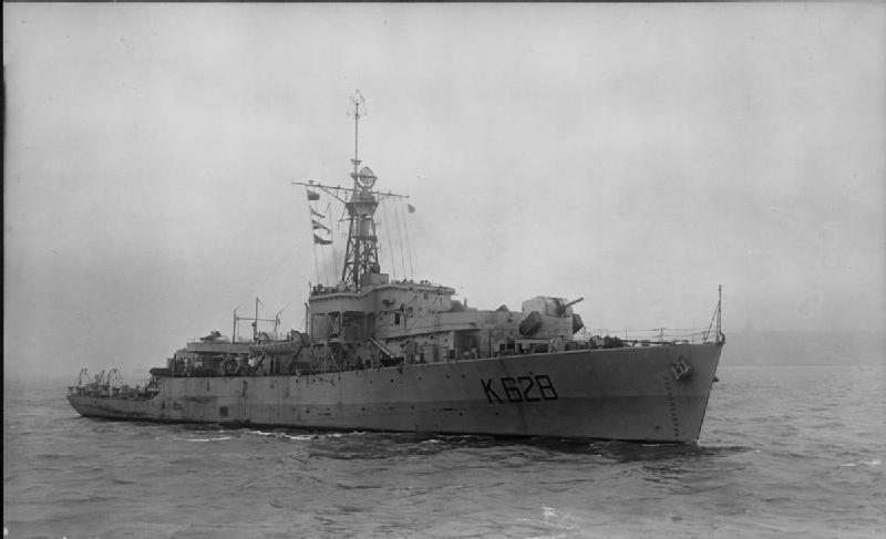 Photograph of British frigate HMS Killisport.